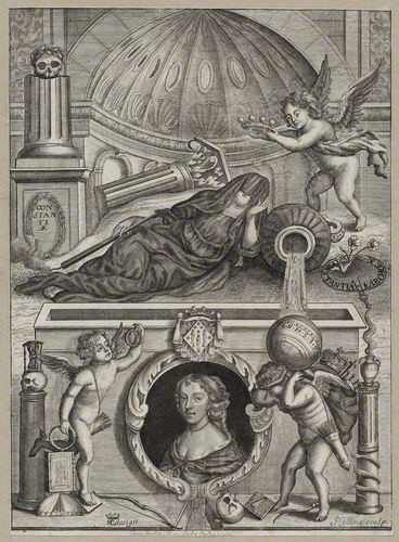 Memorial engraving for Constantia Hare, Lady Coleraine (died 1680), wife of Henry Hare, 2nd Baron Coleraine.